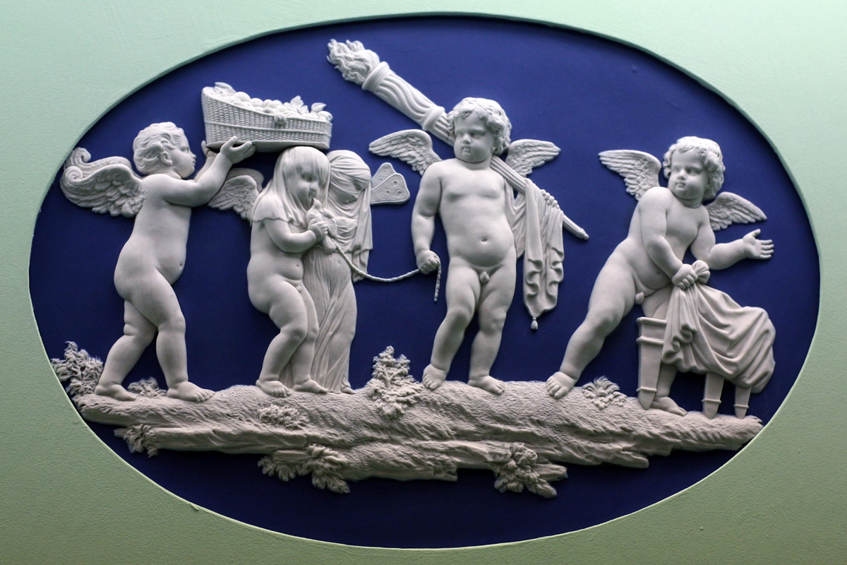 Wedgwood. Marriage of Cupid and Psyche, ca. 1773. Tinted stoneware. Brooklyn Museum, Gift of the estate of Emily Winthrop Miles, 64.82.66.